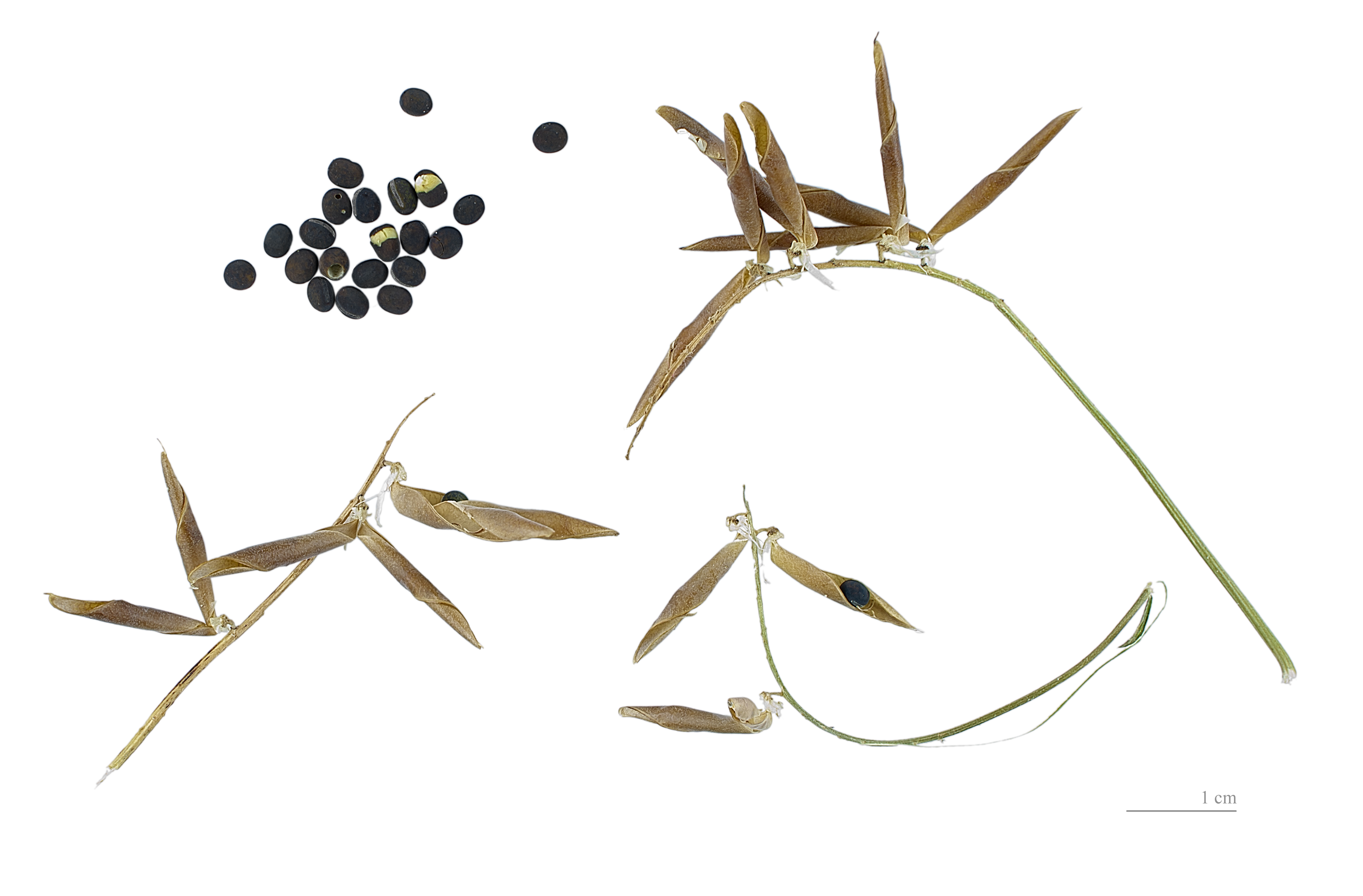 Tufted vetch, Legumes and seeds